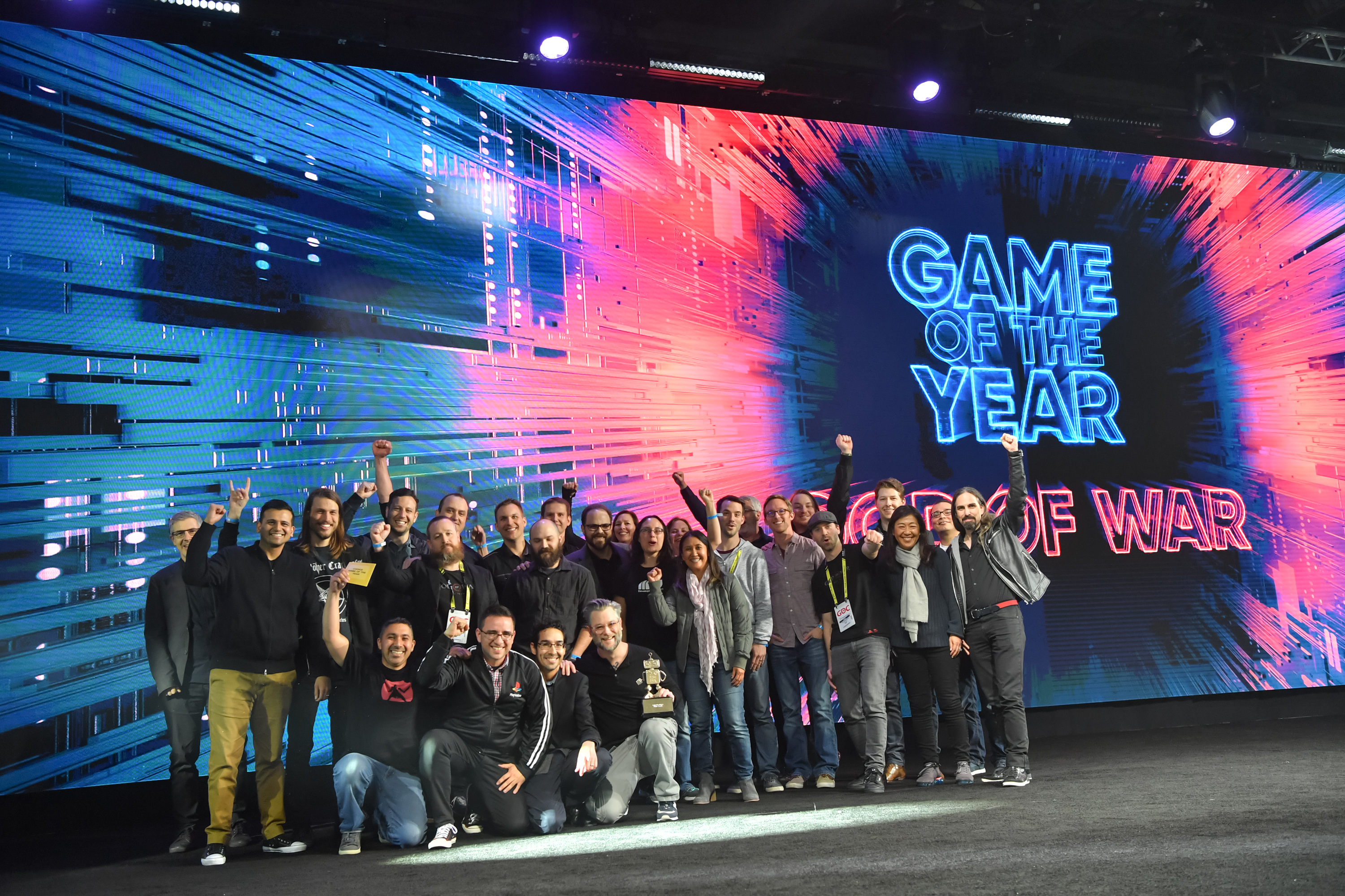 Cory Barlog and the team at SIE Santa Monica Studio pose with their 2018 Game of the Year award for God of War.